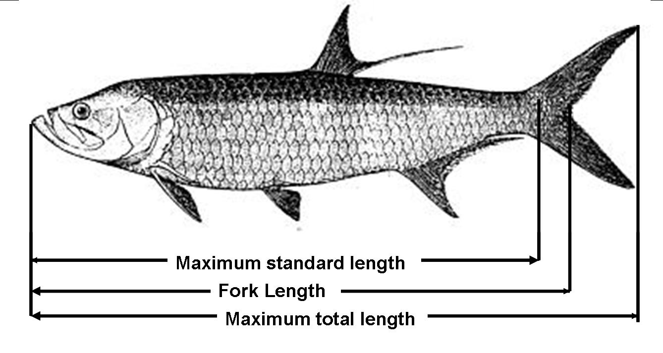 Example of different ways to measure fish length. This fish is a tarpon.